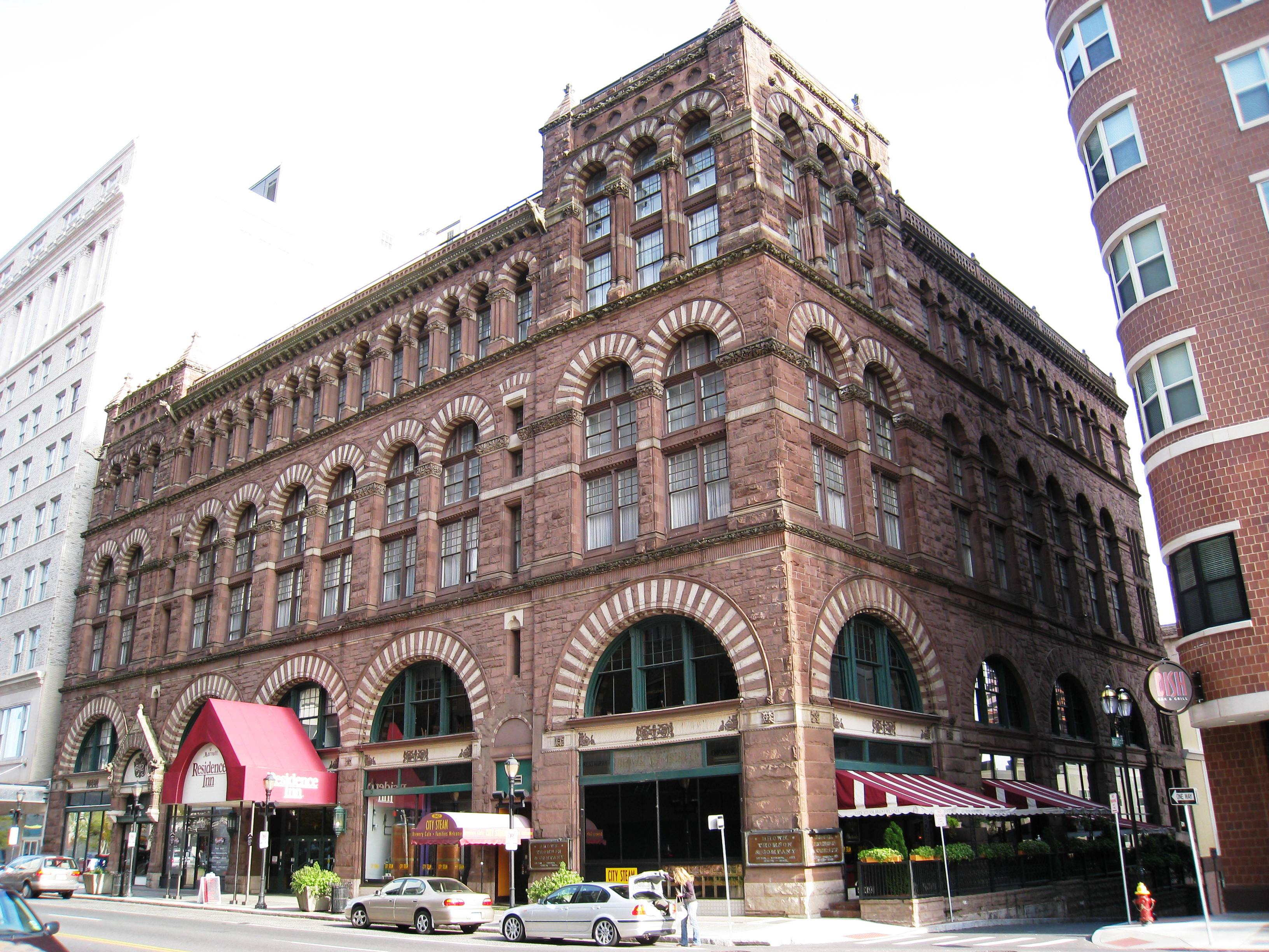 General view - Cheney Building, Hartford, Connecticut, USA; H. H. Richardson (1838–1886), architect. Building was constructed 1875-1876. Note that copyrights on this building (if any) have long since expired.